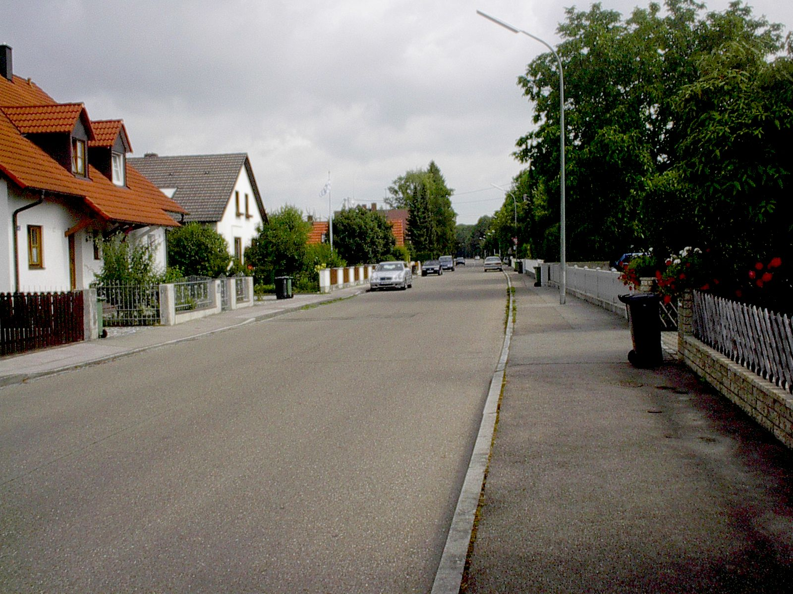 Die Eichelgartenstraße in Heinrichsheim